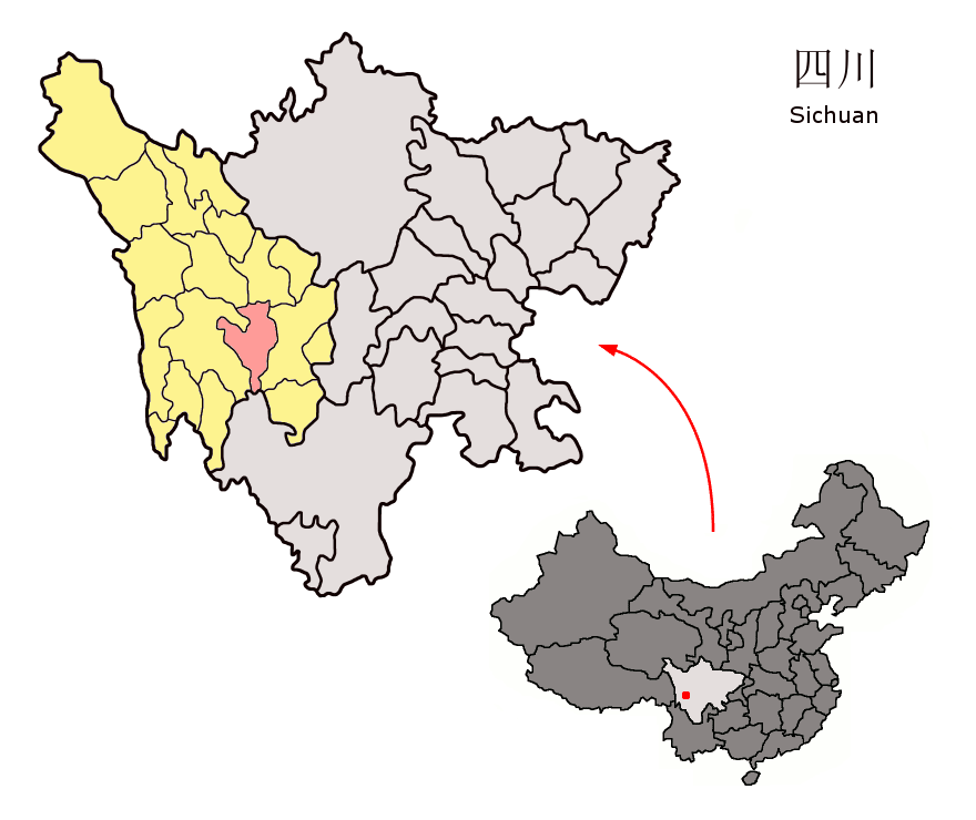 Location of Yajiang County (pink) and Garzê Prefecture (yellow) within Sichuan province of China Map drawn in september 2007 using various sources, mainly : Sichuan province administrative regions GIS data: 1:1M, County level, 1990 Sichuan Counties map from